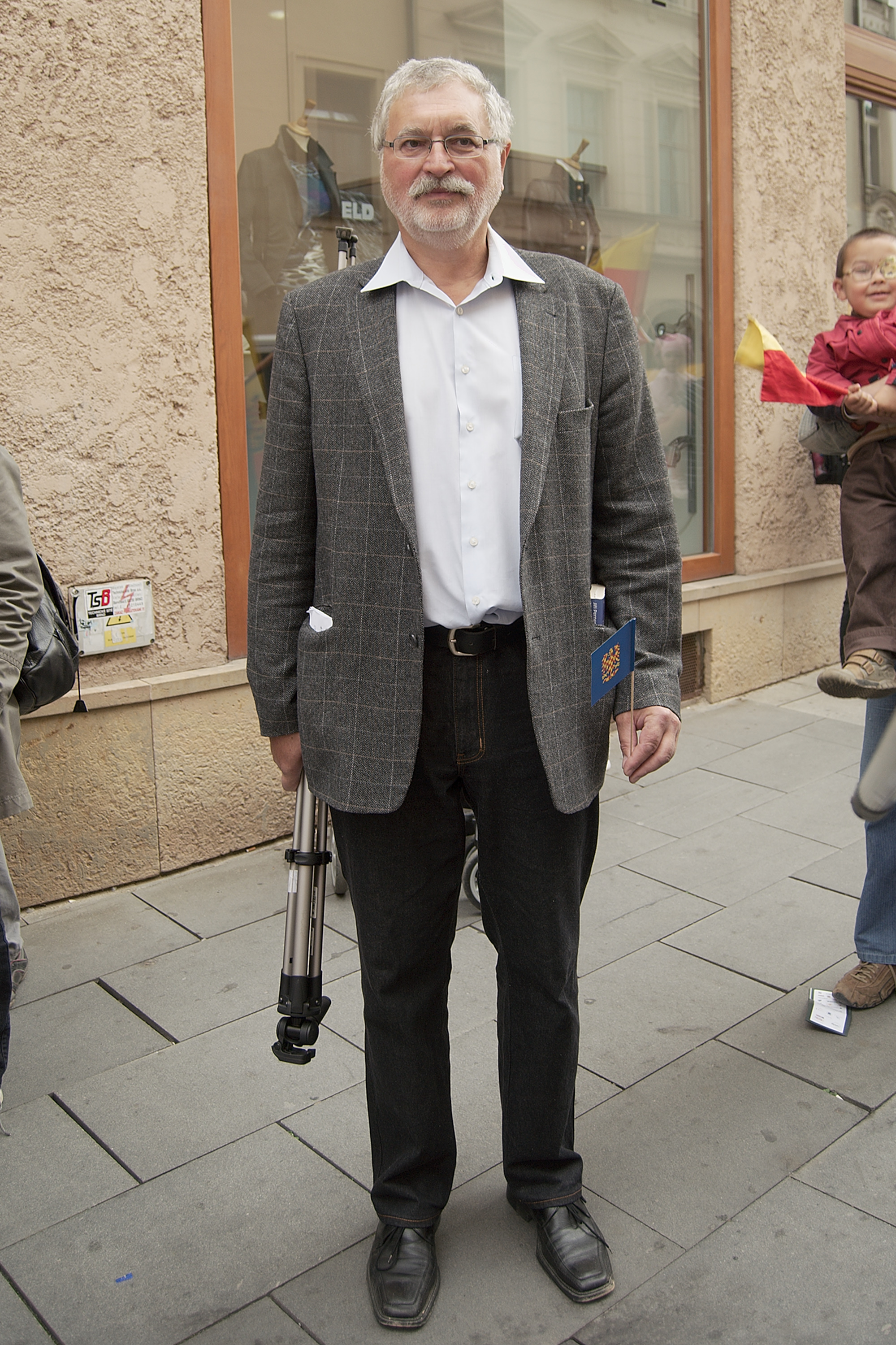 Jiří Pernes, the moravian historian